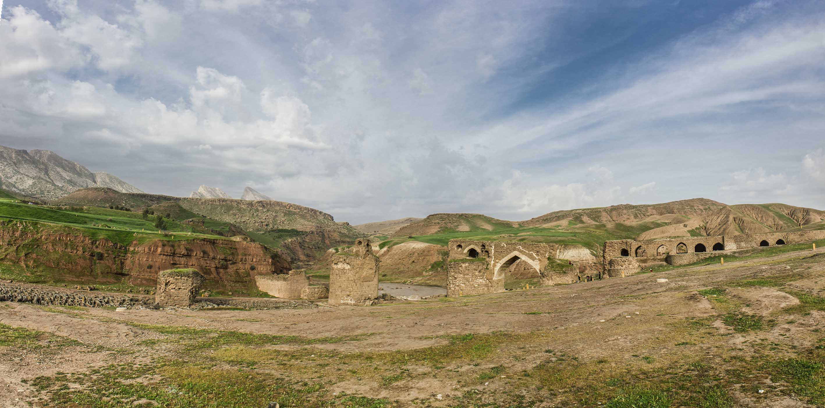 the historical bridge of Gavmishan placed in Ilam,Iran